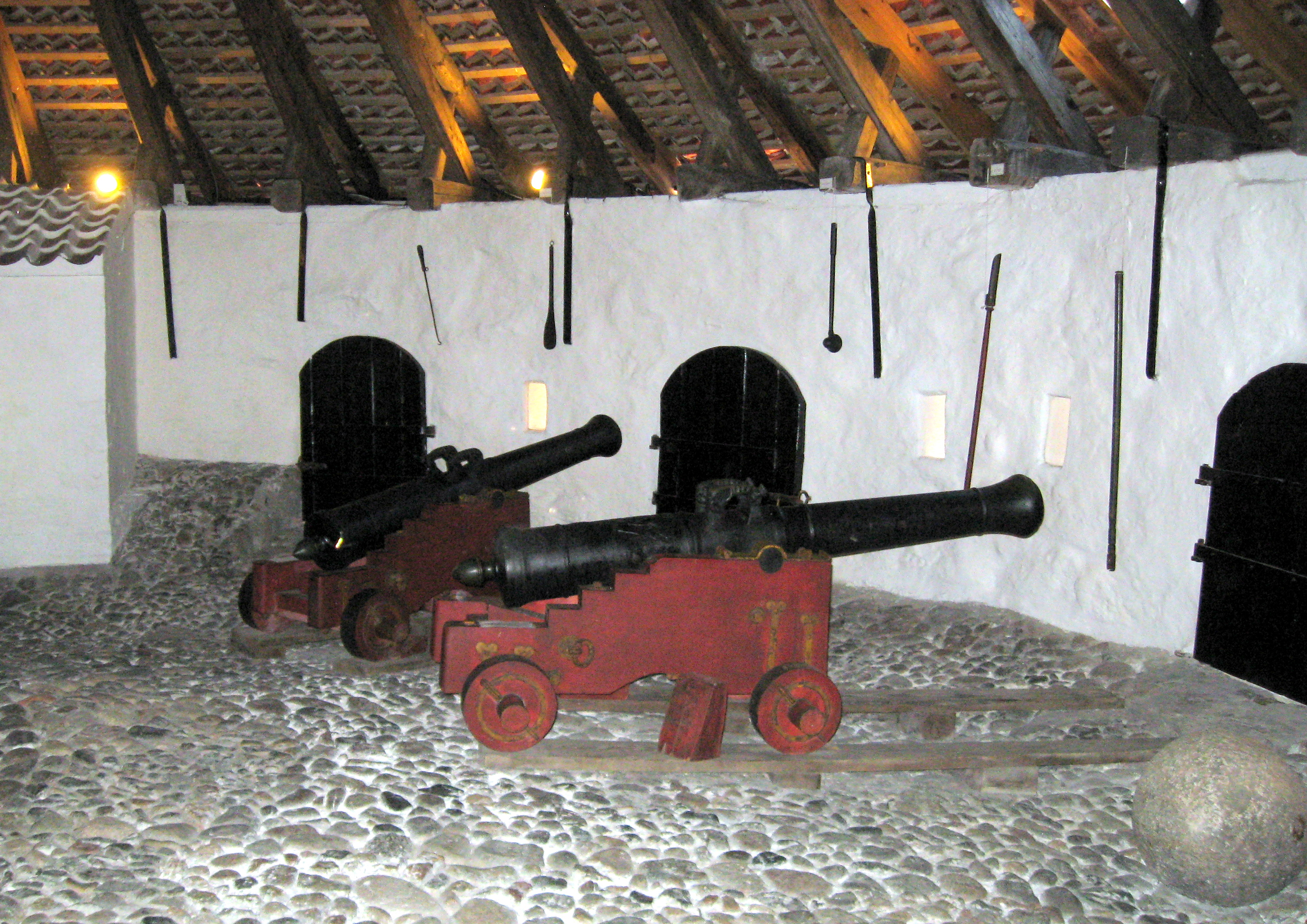 Cannons in the Gunpowder Tower, Frederikshavn, Denmark